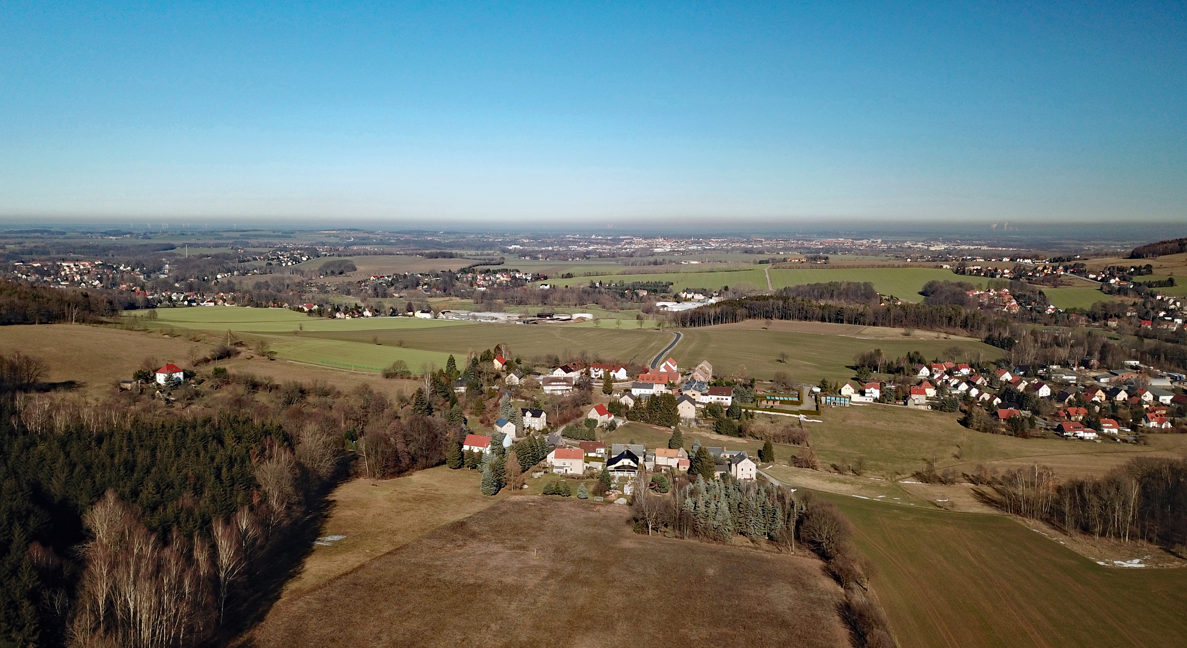 Berge, Großpostwitz, Saxony, Germany Hornjoserbsce: Powětrowy wobraz Zahorja pola Budestec